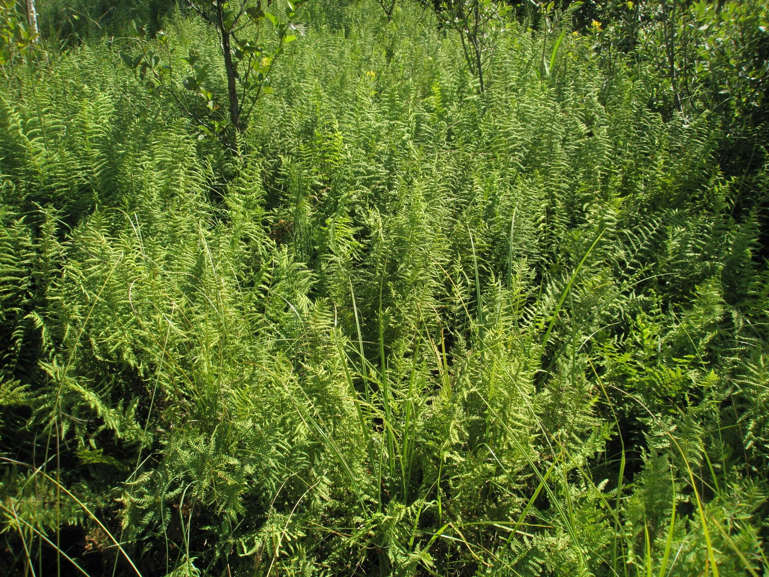 Thelypteris palustris